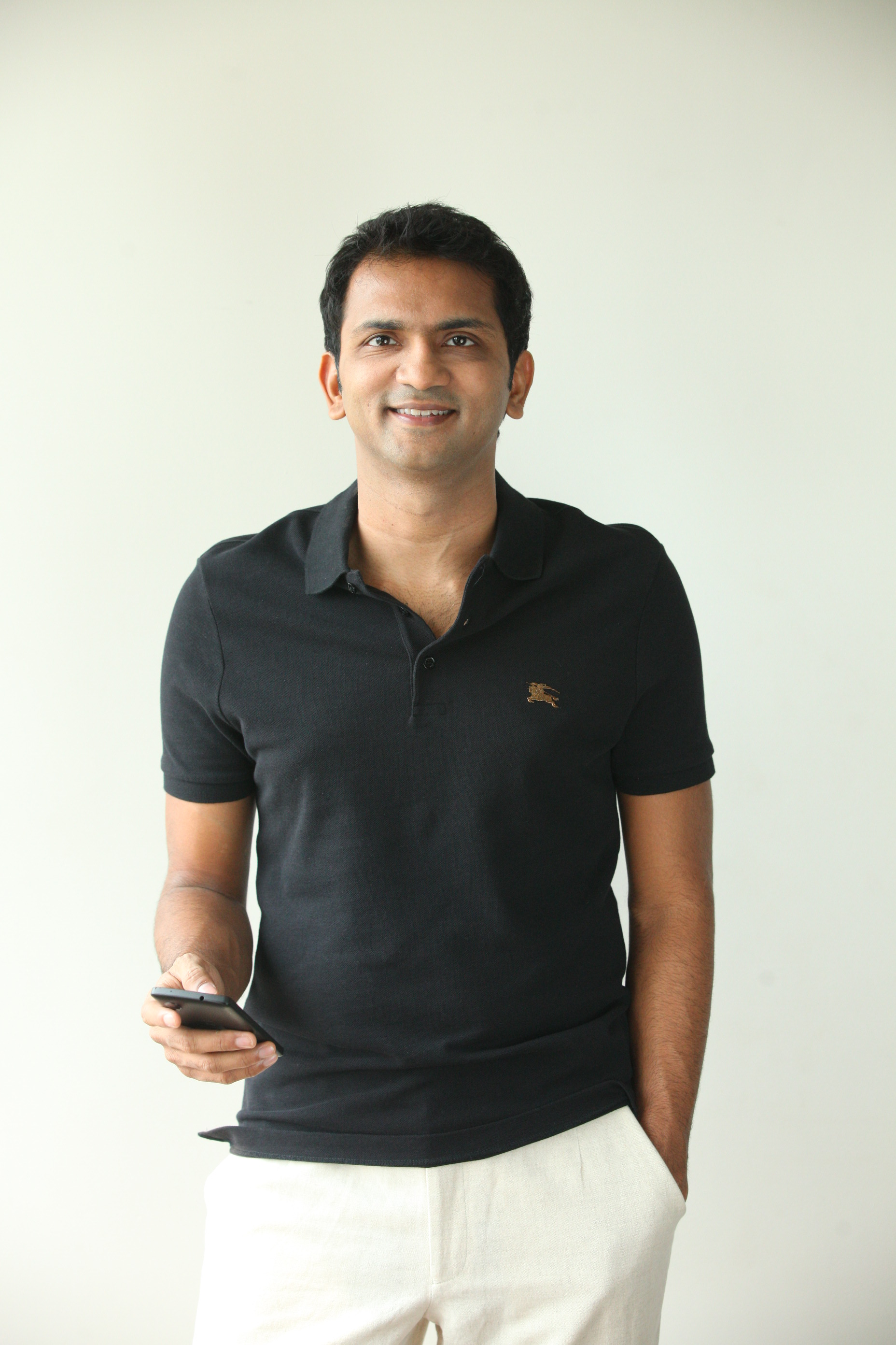 Bhavin Turakhia, Co-founder and CEO of Directi Group